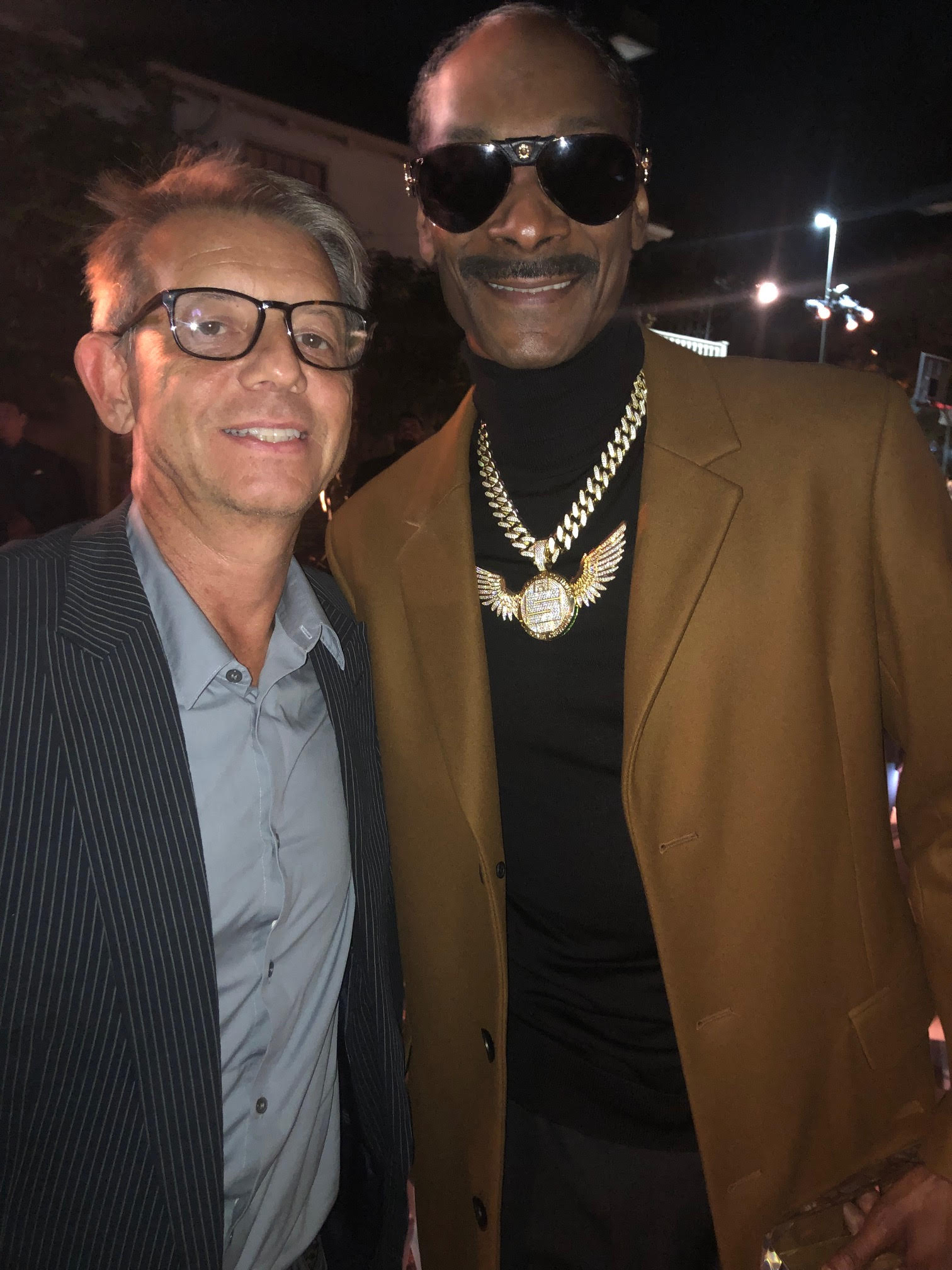 Snoop Dogg